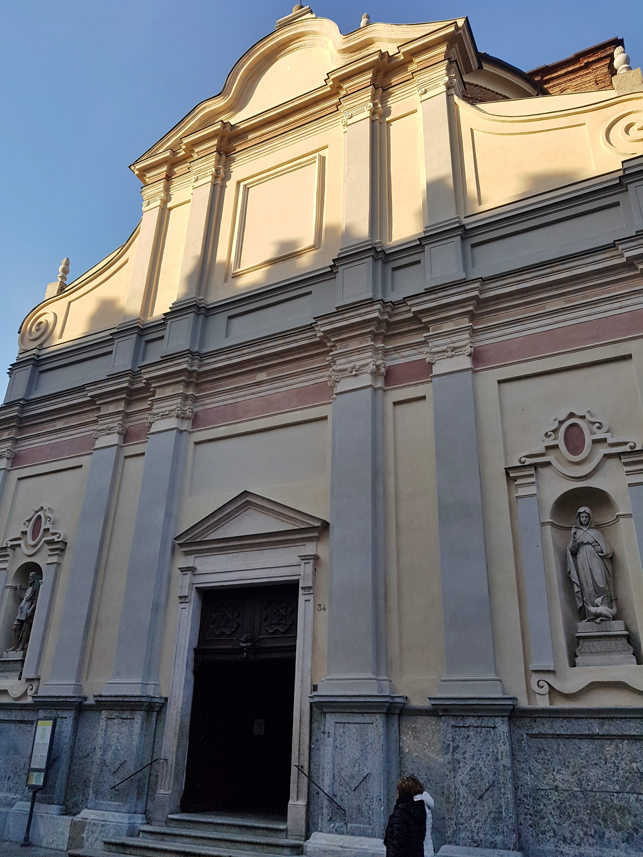 St Jonh's the Baptist and St Marta's Church), Chivasso, Northern Italy